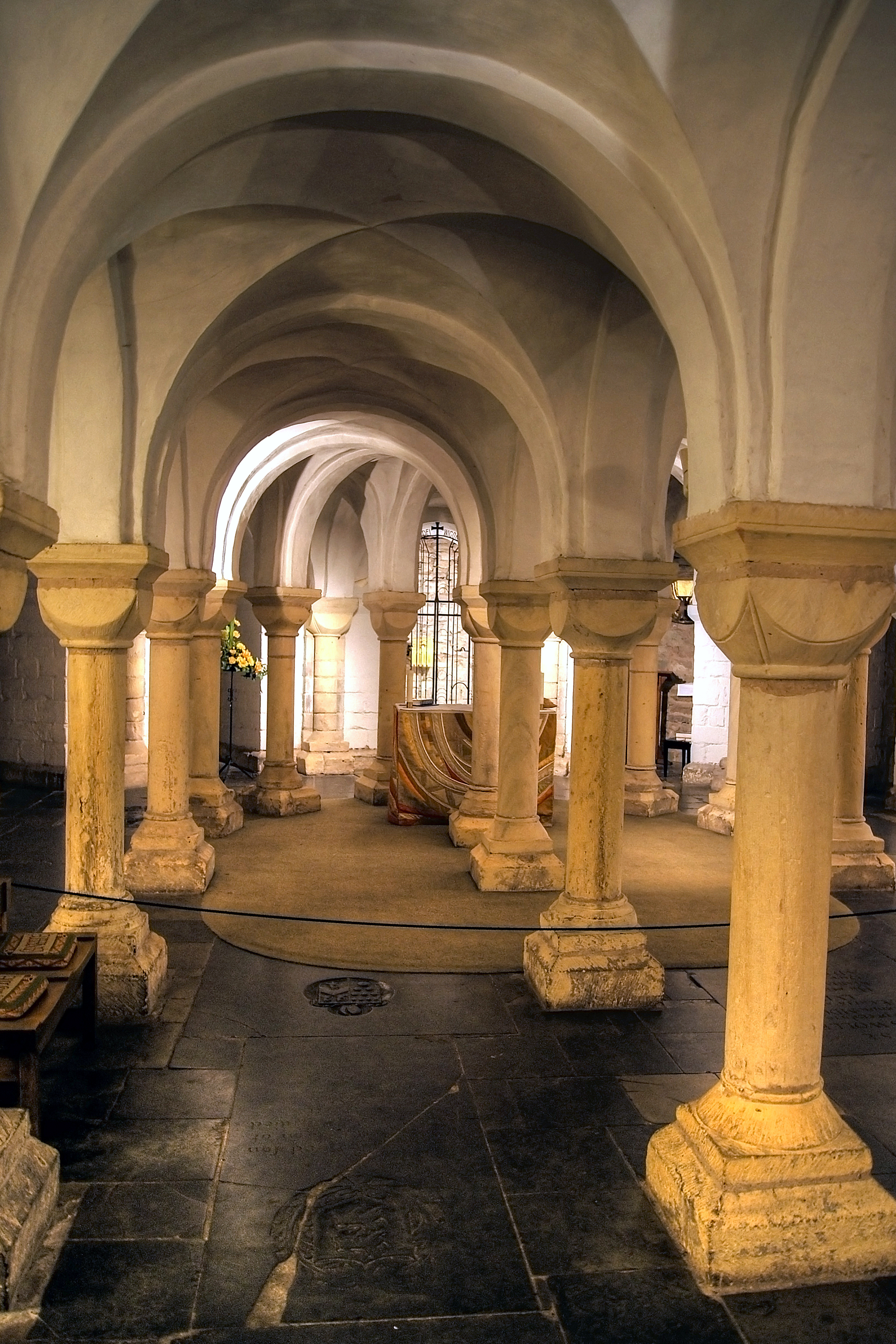 Inside the Worcester Cathedral Crypt